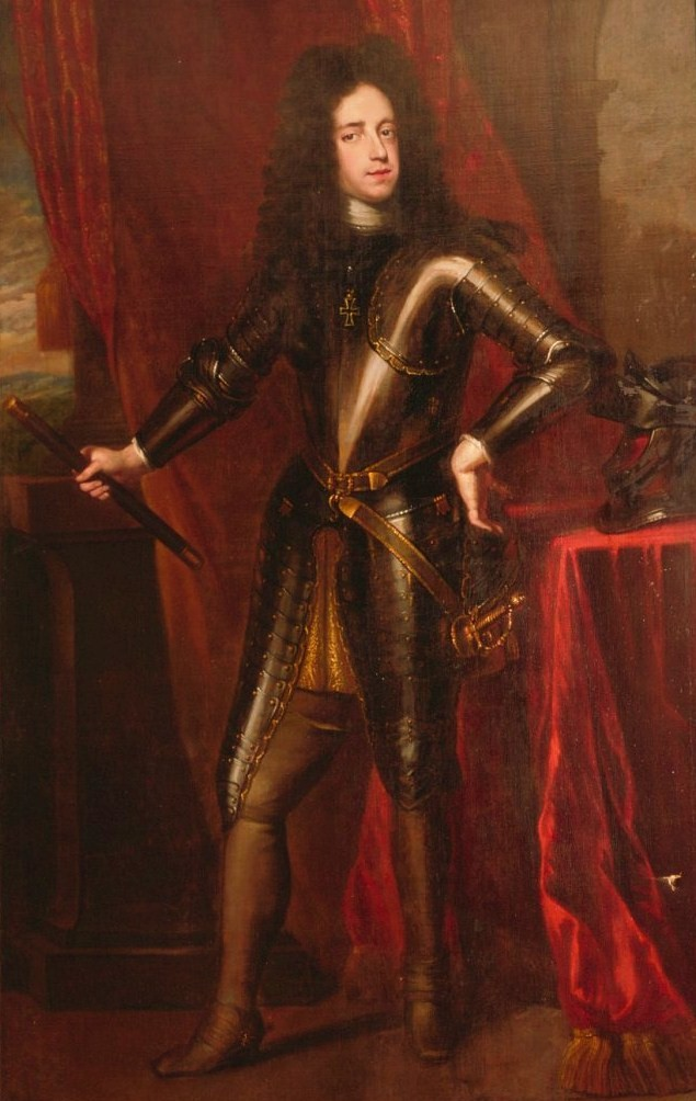 Henry Casimir II, Prince of Nassau-Dietz.